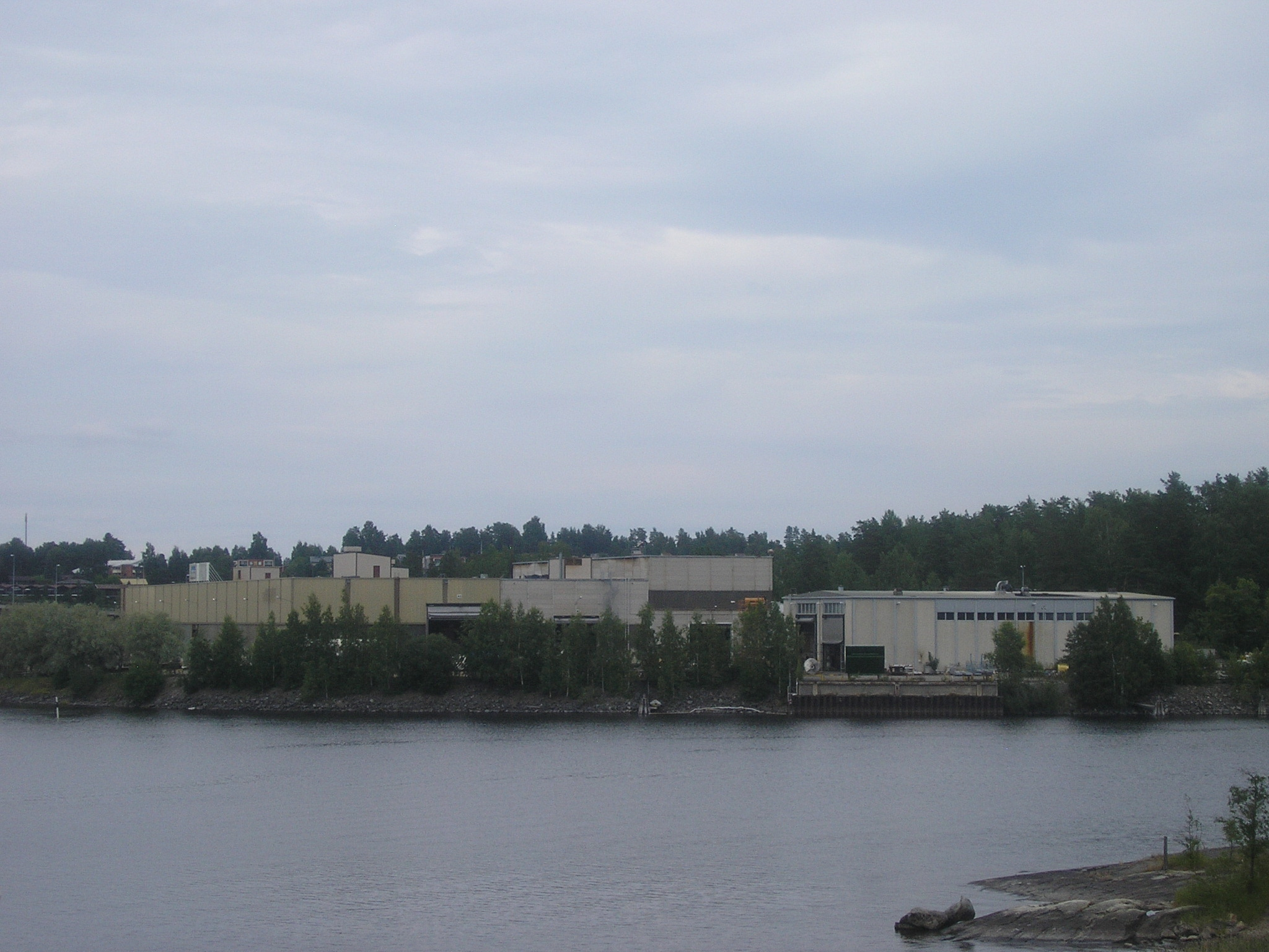 Andritz Savonlinna Works in Finland